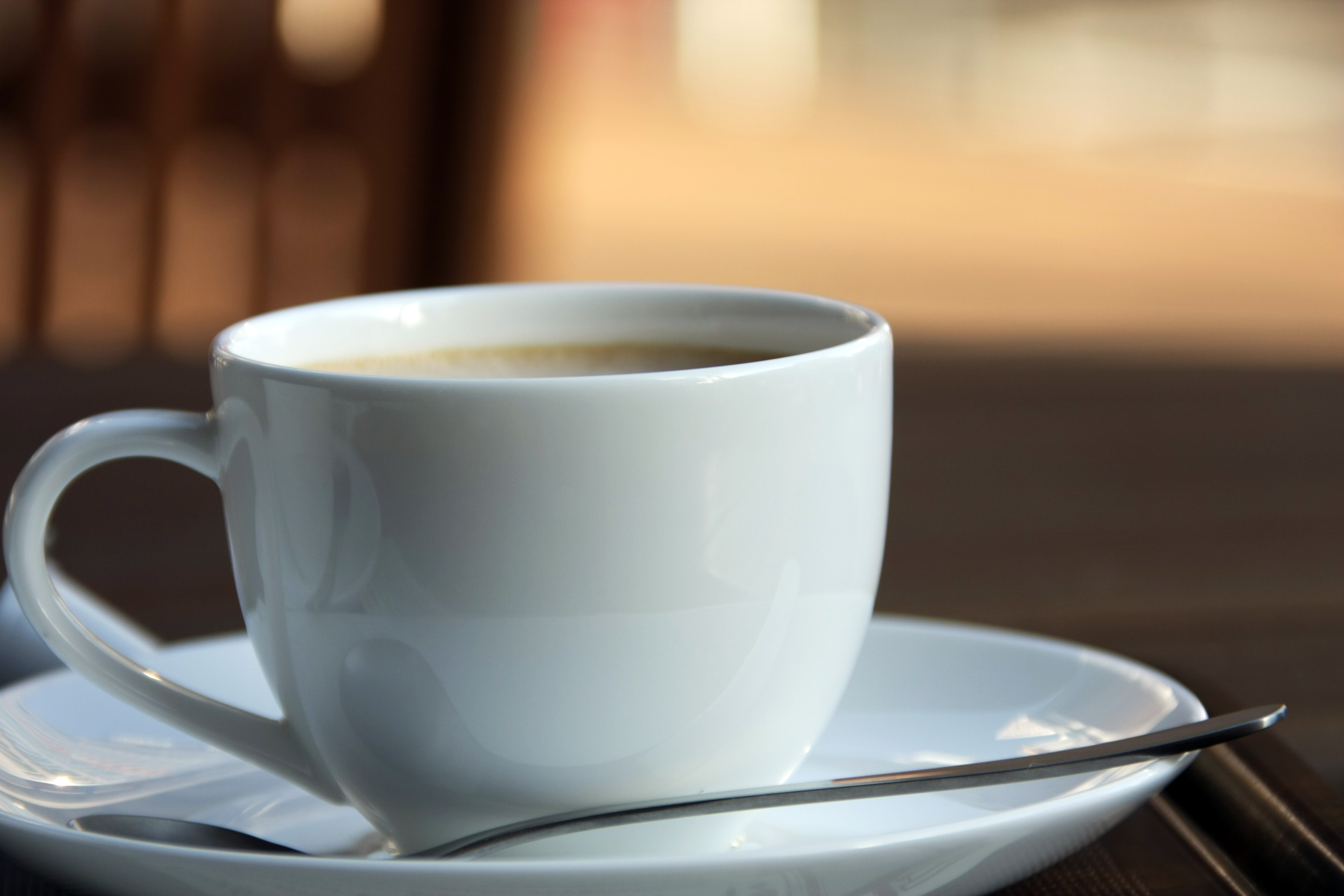 The following is the author's description of the photograph quoted directly from the photograph's Flickr page."Yokohama, Japan "